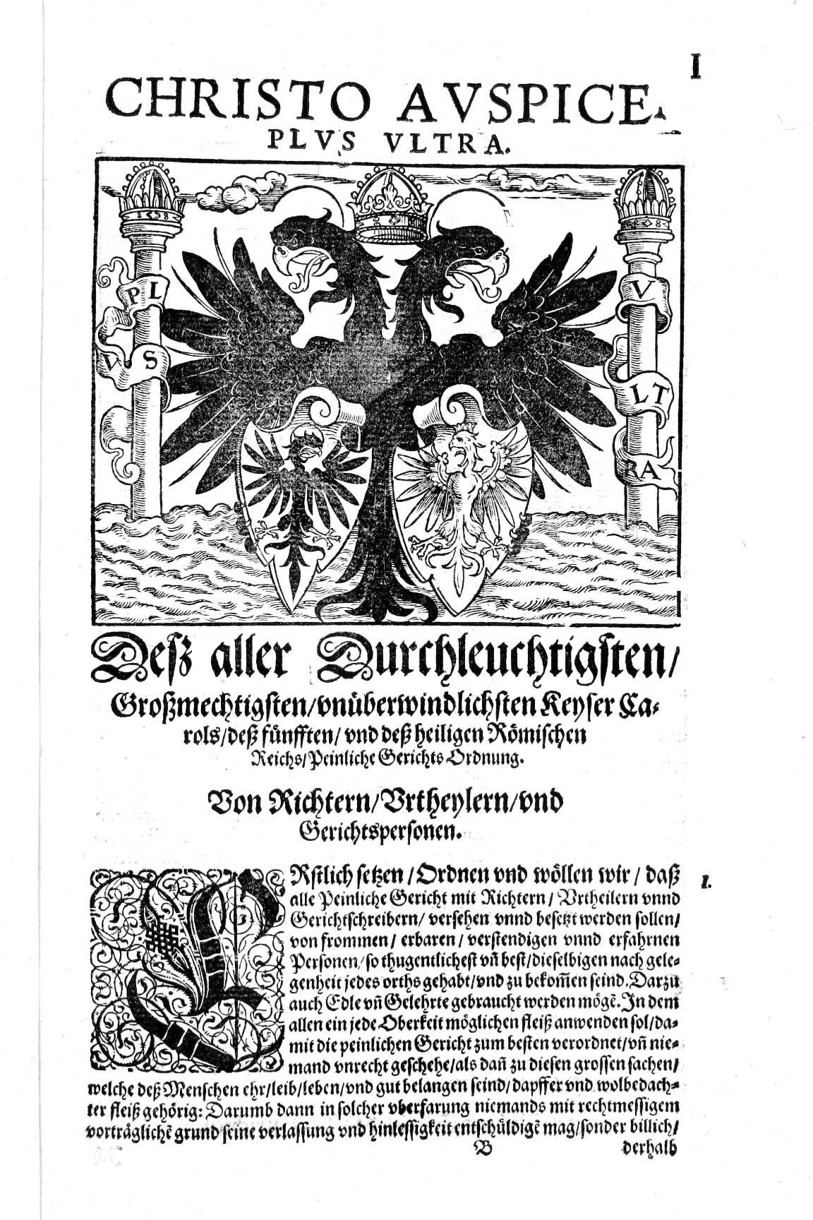 This is a scan of the historical document